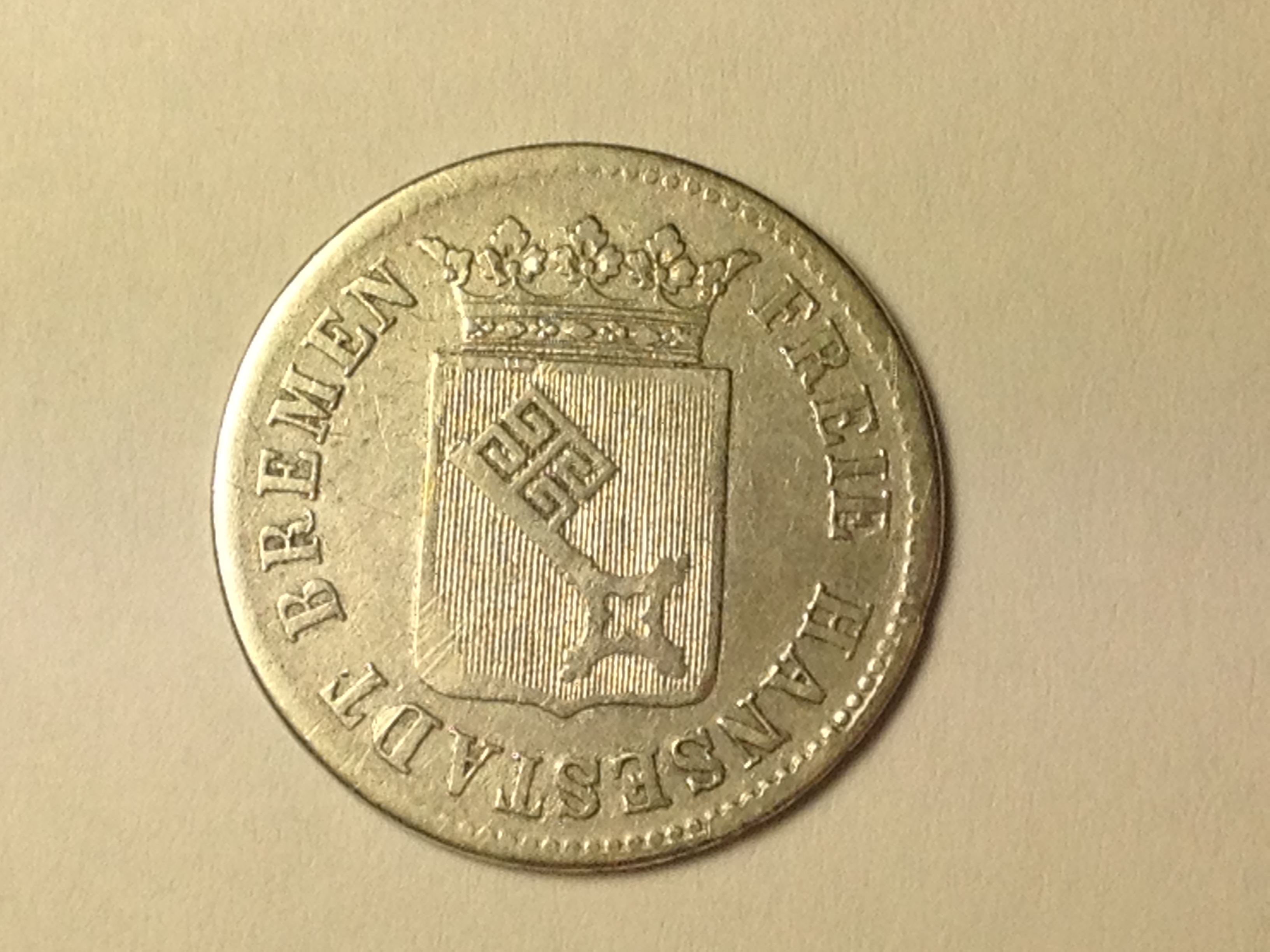 Reverse of 12 Grote 1845. Coin from my collection. Photo was made by me personally